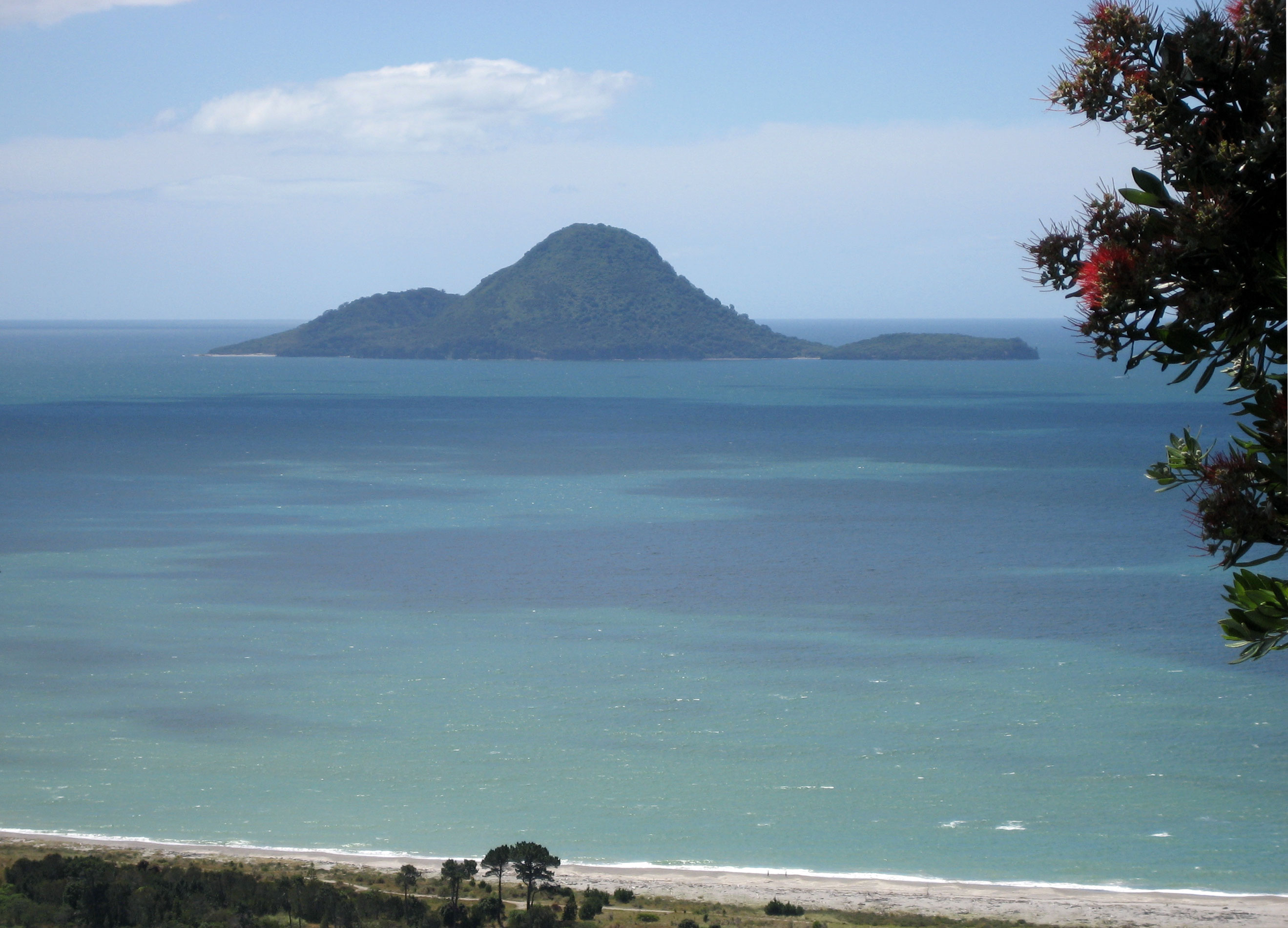 Moutohora Island (Whale Island) from the North Island coastline near Whakatāne, Eastern Bay of Plenty, New Zealand